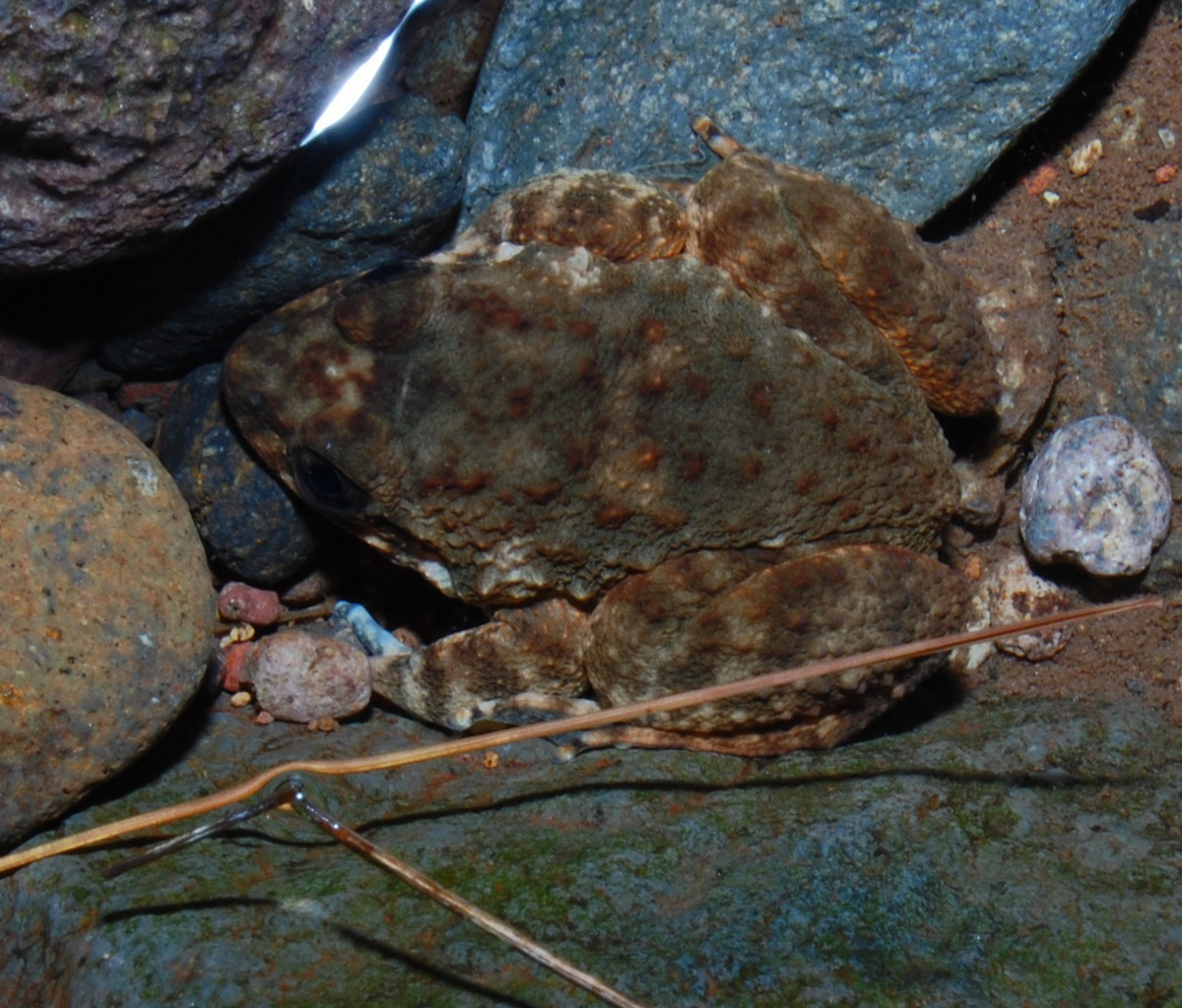 Limnonectes kuhlii from Calobak, Bogor, West Java, Indonesia